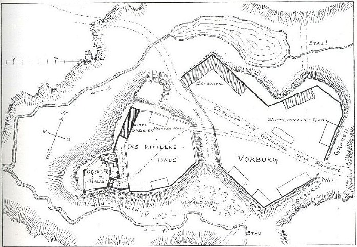 Pokrzywno Castle